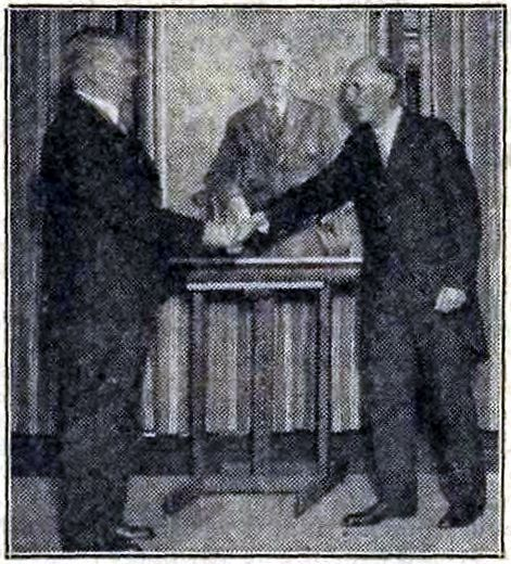 N.C. Kist bij afscheid in 1937